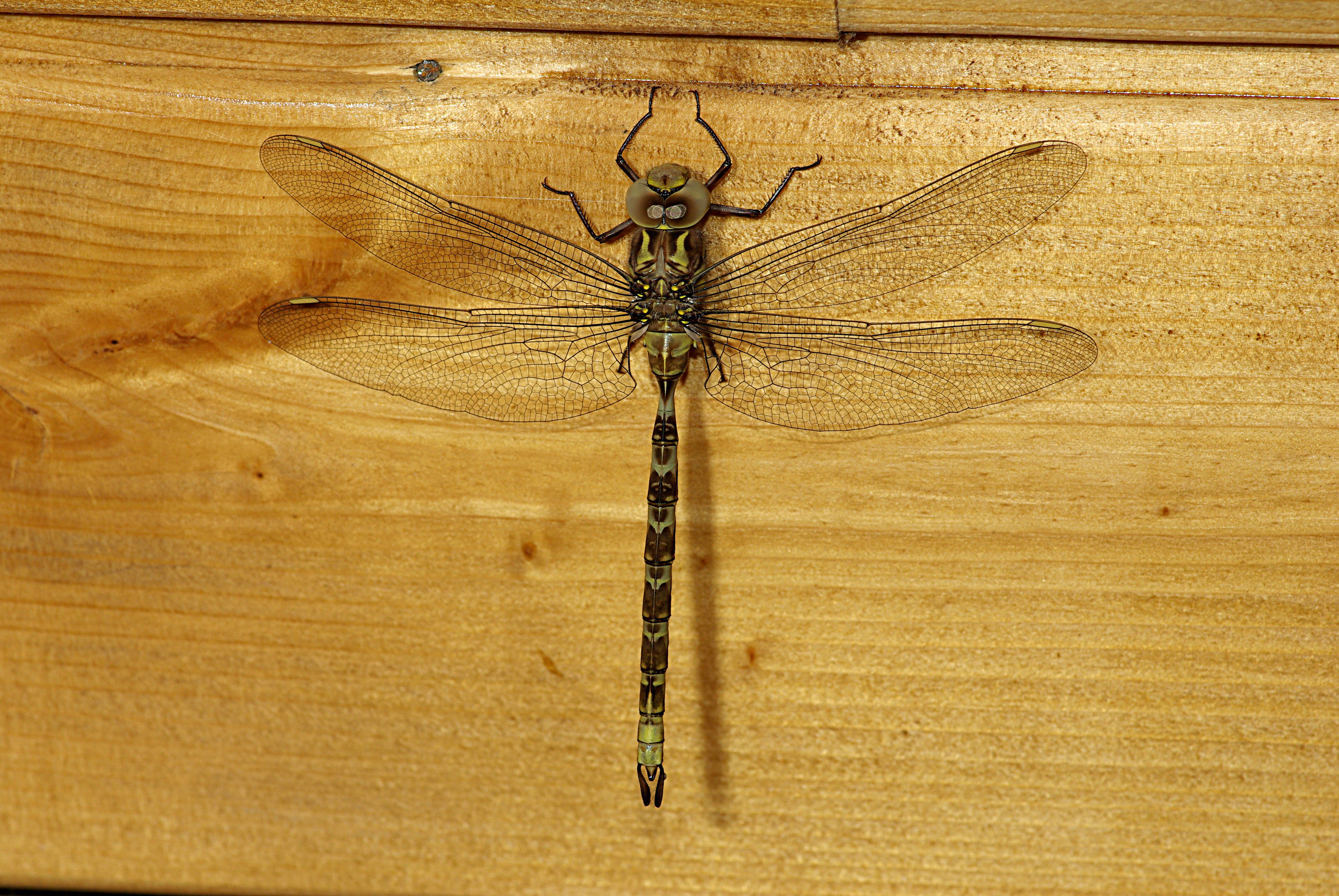 Boyeria irene taken in Normandie 14 France